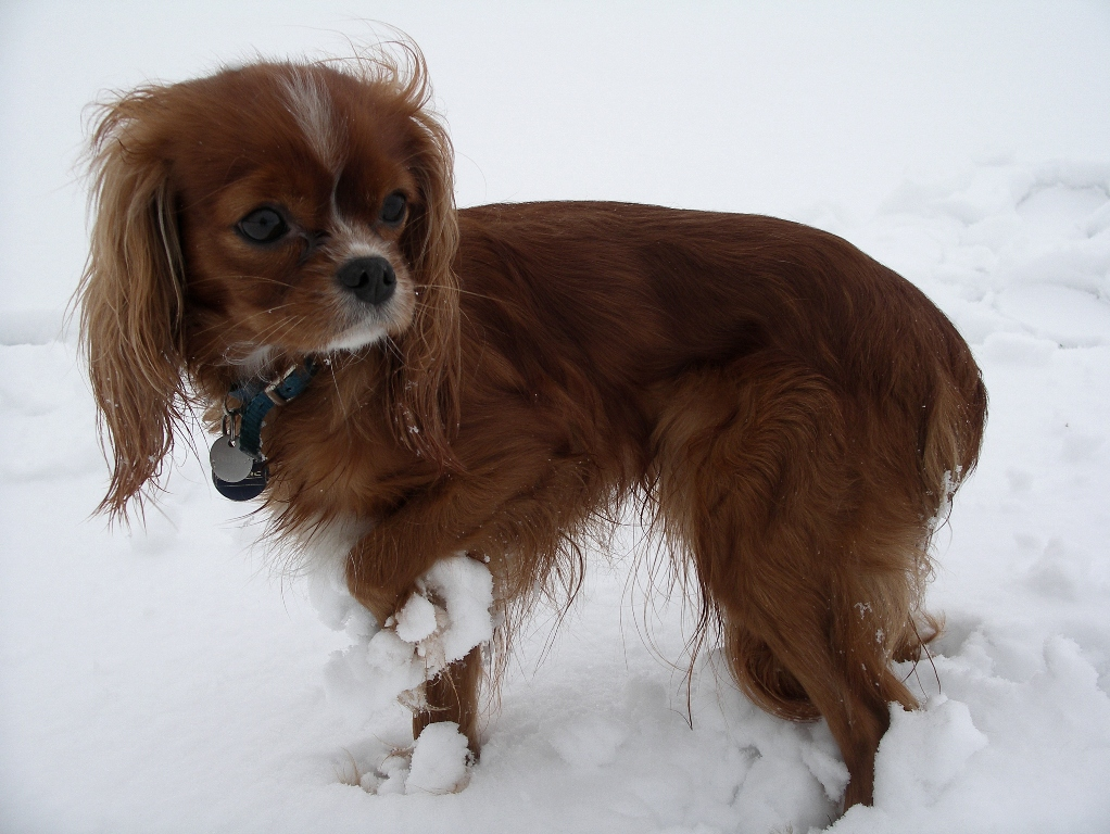 Ruby collecting snow balls Cavalier King Charles Spaniel